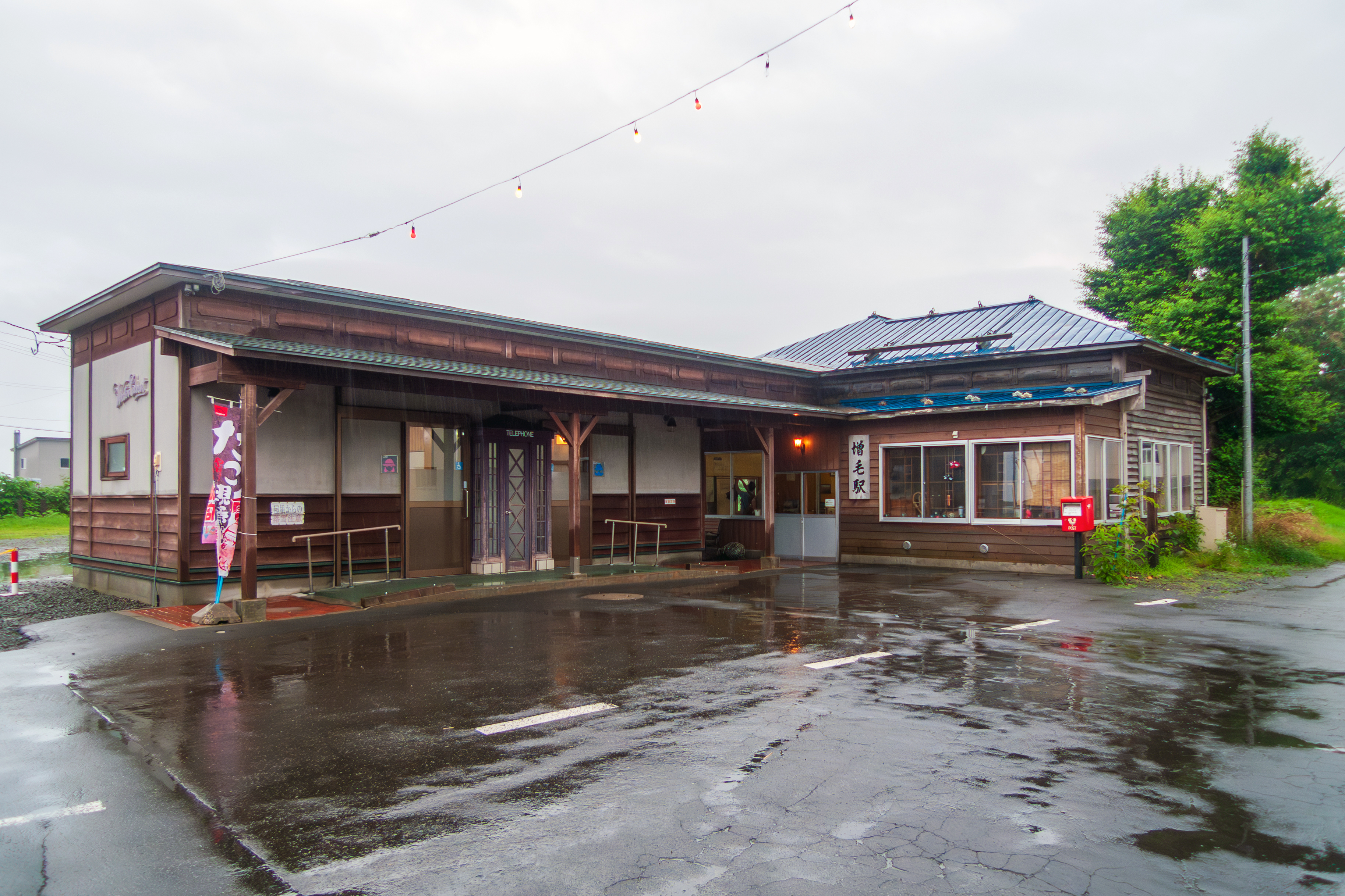 Mashike Station on the Rumoi Main Line in Mashike Town, Hokkaido, Japan